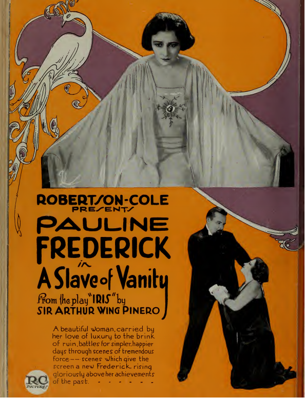 Advertisement with Pauline Frederick in A Slave of Vanity (1920), directed by Henry Otto.